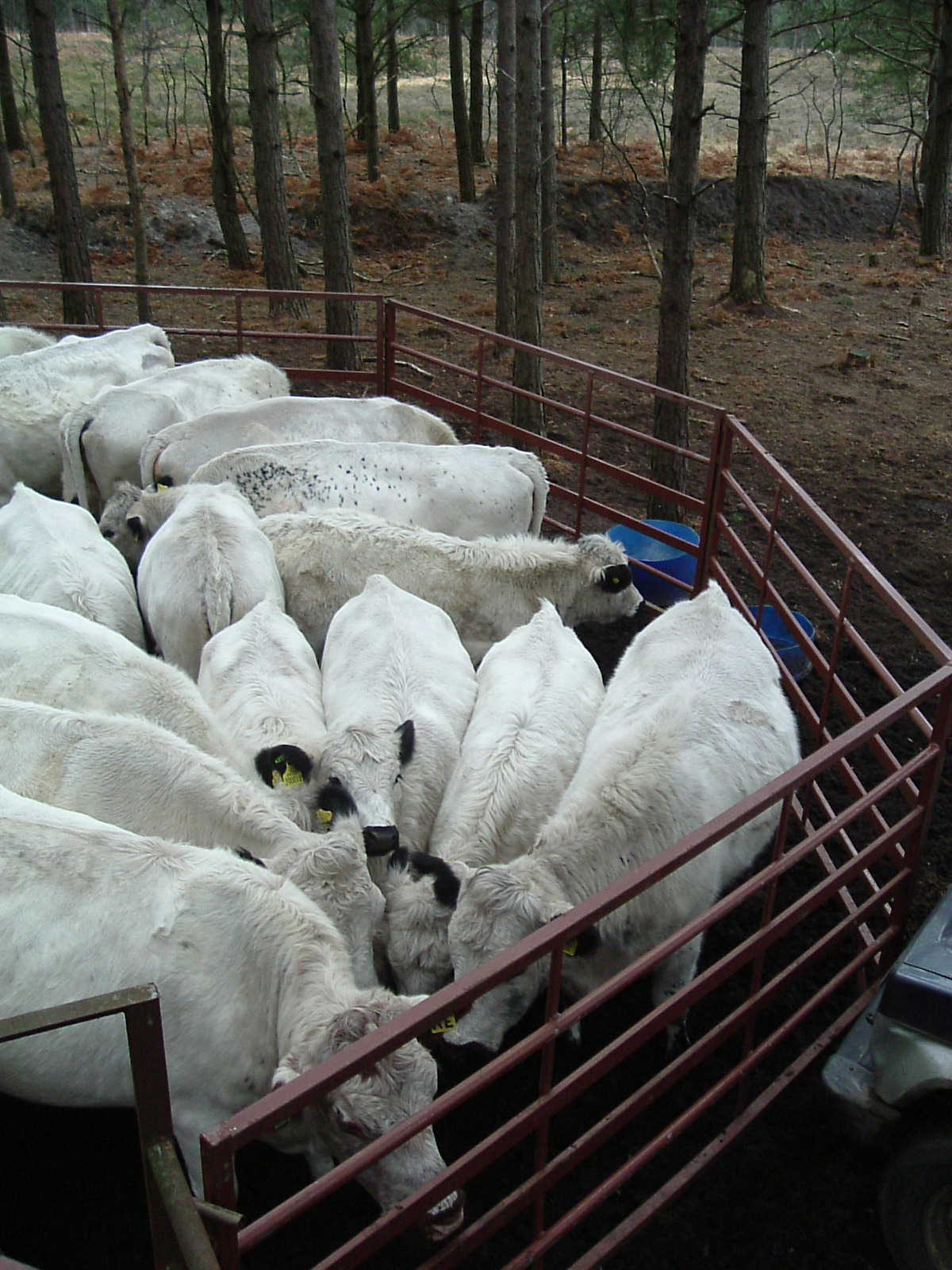 Herd of British White cattle in mobile cattle pen, Avon Heath Country Park, St Leonards, Dorset, England.